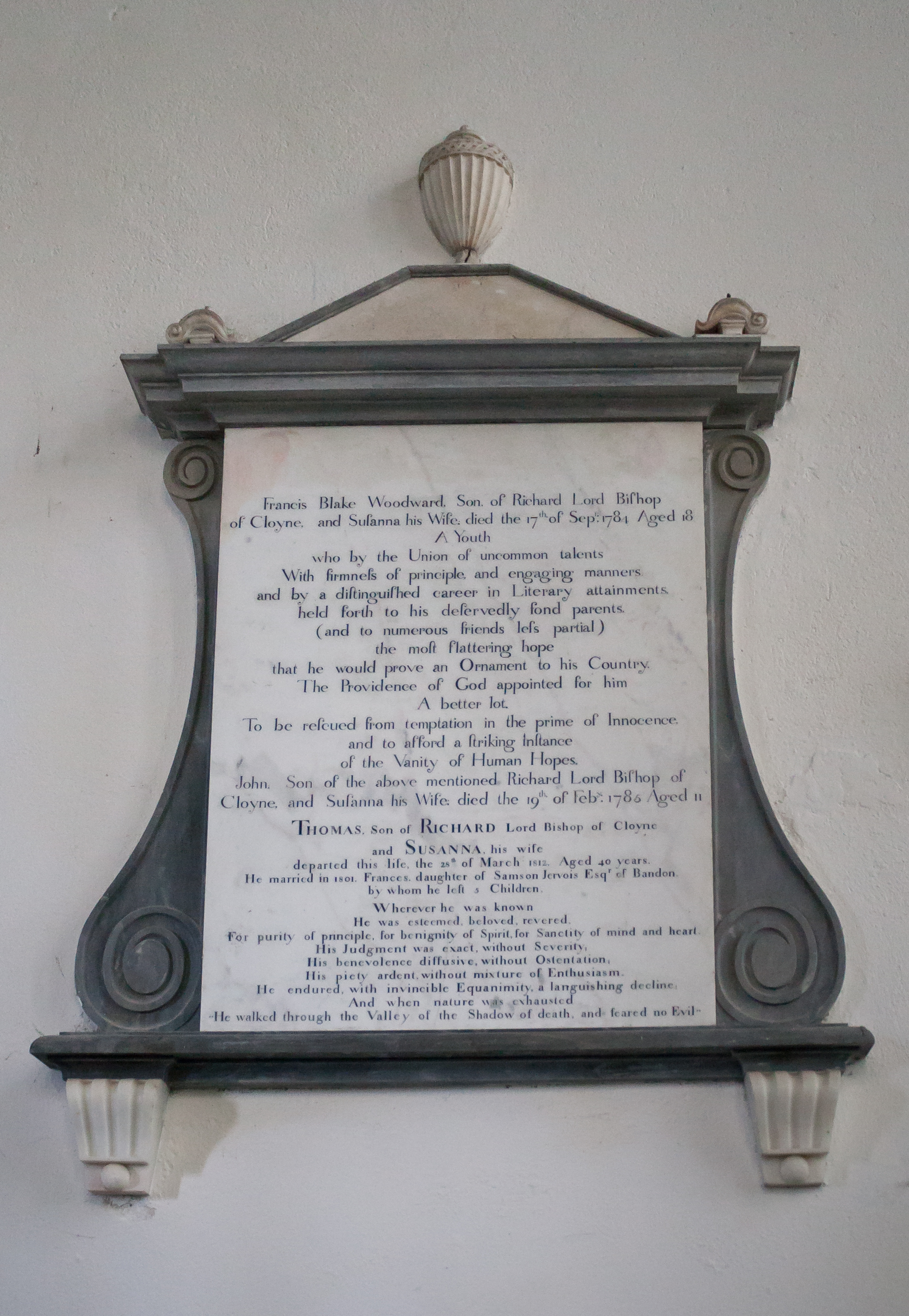 Memorial plaque dedicated to Francis Blake Woodward and other children of Richard Lord Bishop of Cloyne. The inscription reads: Francis Blake Woodward. Son of Richard Lord Bishop of Cloyne, and Susanne his Wife, died 17th of Sept. 1784 Aged 18 A Youth who by the Union of uncommon talents With firmness of principle, and engaging manners and by a distinguished career in Literary attainments held forth to his deservedly fond parents (and to numerous friends less partial) the most flattering hope that he would prove an Ornament to his County. The providence of God appointed for him A better lot. To be rescued from temptation in the prime of Innocence, and to afford a striking Instance of the Vanity of Human Hopes. John. Son of the above mentioned Richard Lord Bishop of Cloyne, and Susanne his Wife, died the 19th of Feb. 1785 Aged 11 Thomas, Son of Richard Lord Bishop of Cloyne and Susanna, his wife departed this life, the 28th of March 1812. Aged 40 years. He married in 1801. Frances daughter of Samson Jervois Esqr of Bandon by whom he left 5 Children. Wherever he was known He was esteemed, beloved, revered. For purity of principle, for benignity of Spirit, for Sanctity of mind and heart His Judgment was exact, without Severity, His benovolence diffusive, without Ostentation, His piety ardent, without mixture of Enthusiasm. He endured, with invincible Equanimity, a languishing decline. And when nature was exhausted He walked through the Valley of the Shadow of death, and feared no Evil.